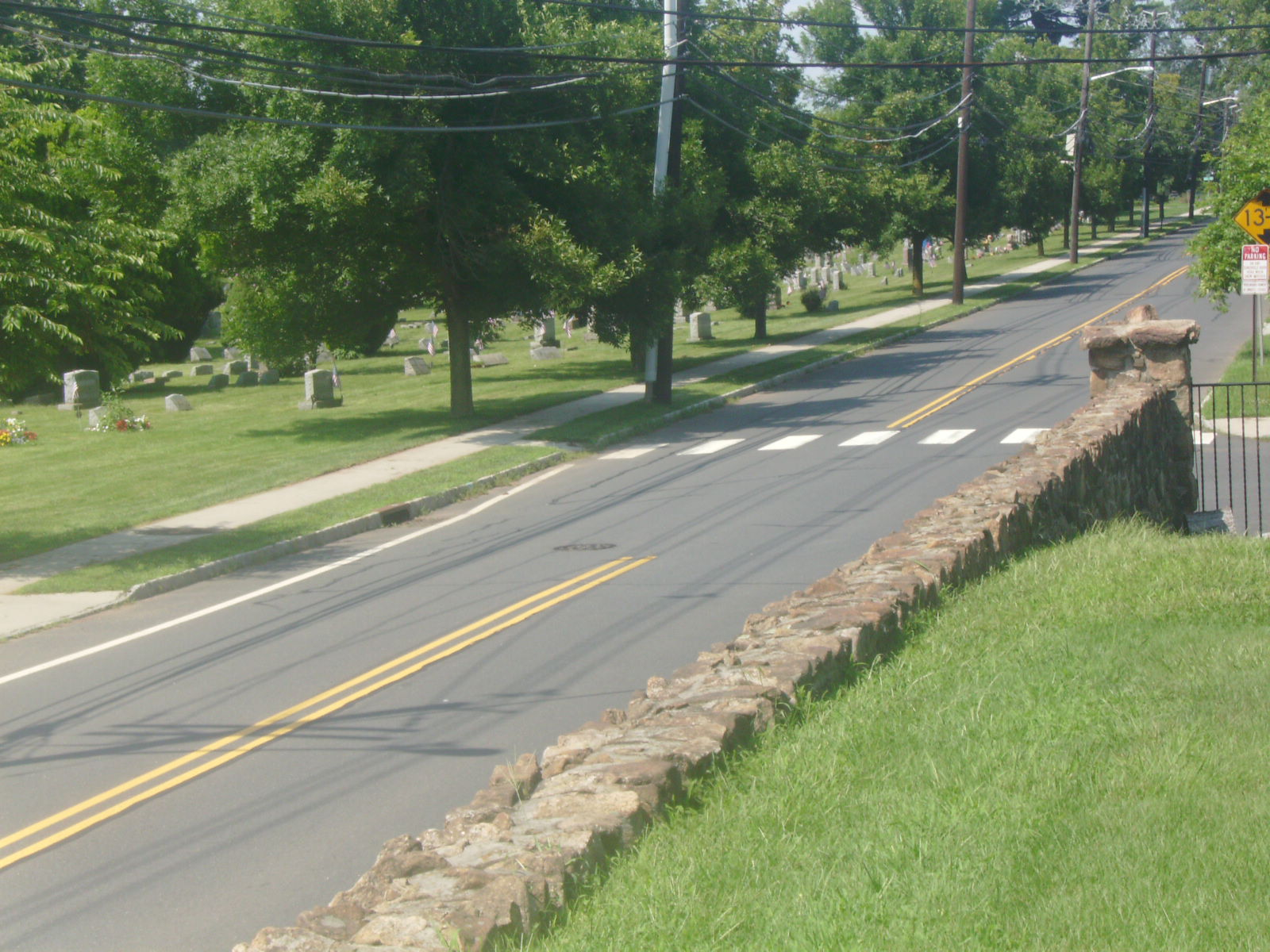 The former northern terminus of New Jersey Route 177 in the community of Somerville, where it met Fifth Street. This shot is viewed from the Somerville Old Cemetery.